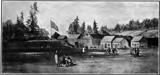 Fort Vancouver in 1825